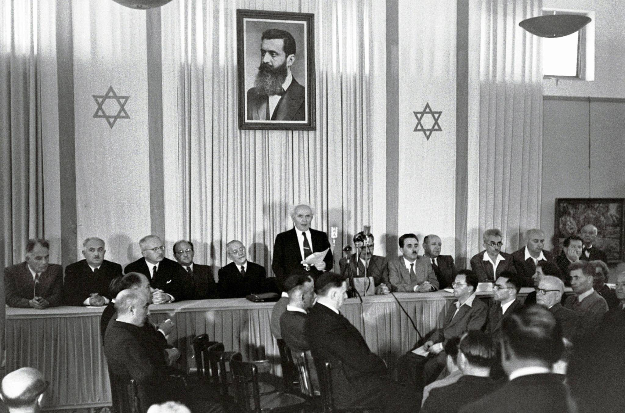 David Ben-Gurion (First Prime Minister of Israel) publicly pronouncing the Declaration of the State of Israel, May 14 1948, Tel Aviv, Israel, beneath a large portrait of Theodor Herzl, founder of modern political Zionism, in the old Tel Aviv Museum of Art building on Rothshild St. The exhibit hall and the scroll, which was not yet finished, were prepared by Otte Wallish.